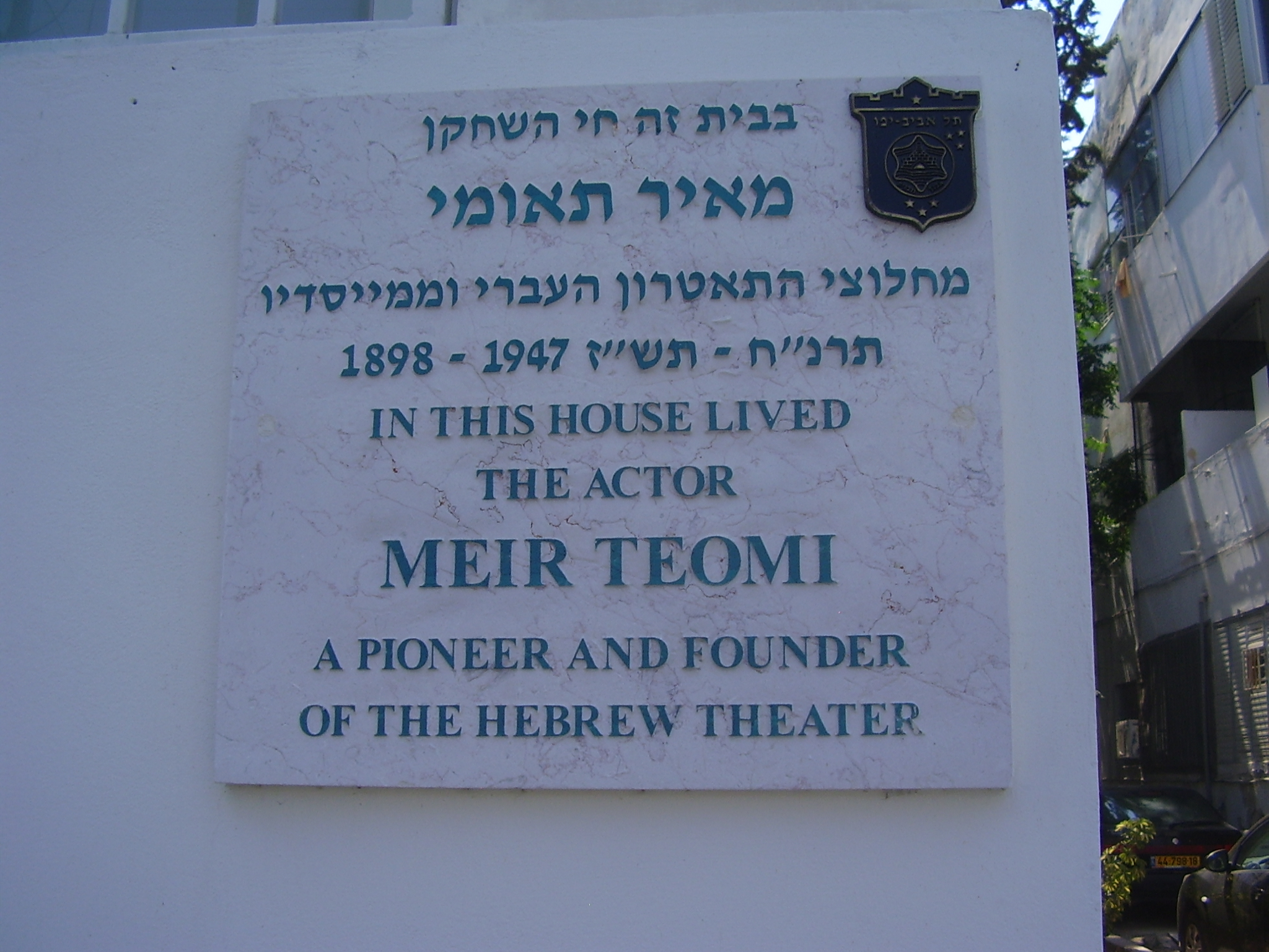 memorial plaque on the actor meir teomi house in tel aviv לוחית זיכרון על ביתו של השחקן מאיר תאומי ברח' פינסקר 64 בתל אביב